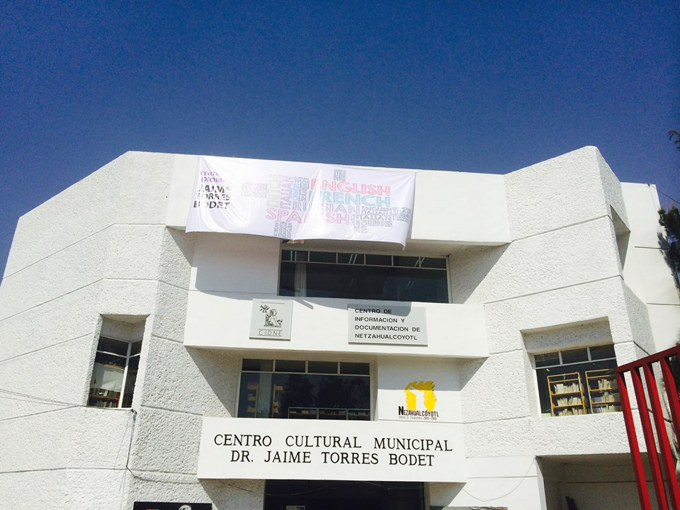 Lenguas extranjeras ciudad neza in Jaime Torres Bodet